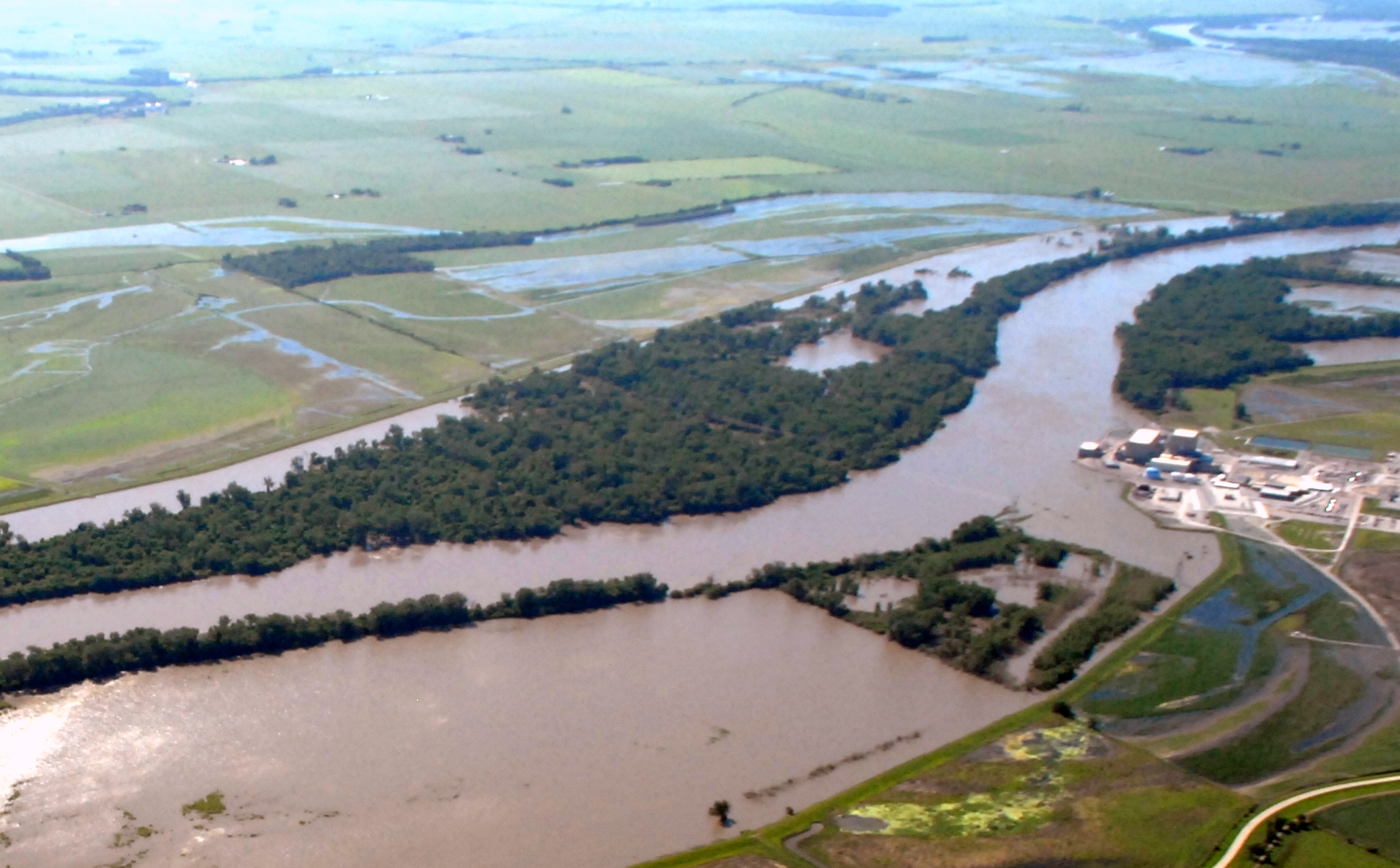 Cooper Nuclear Power Plant on the edge of the 2011 Missouri River Floods on June 15, 2011